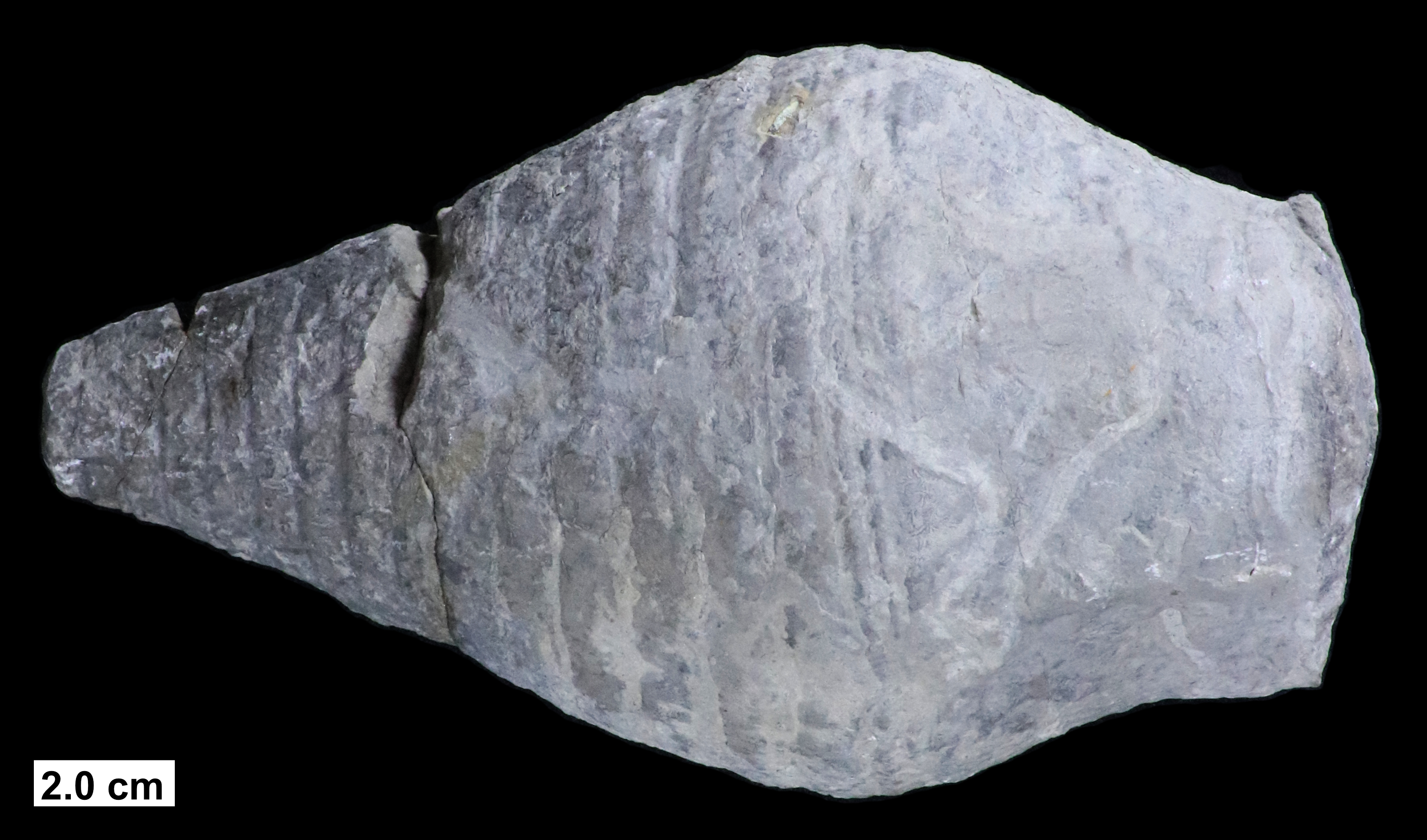 The oncocerid nautiloid Acleistoceras whitfieldi (Cleland, 1907); Middle Devonian; Milwaukee Formation; Berthelet Member; Milwaukee County, Wisconsin; UWM-GM 9475; photograph originally published in K.C. Gass, J. Kluessendorf, D.G. Mikulic, and C.E. Brett, 2019. Fossils of the Milwaukee Formation: A Diverse Middle Devonian Biota from Wisconsin, USA. Siri Scientific Press, Manchester, UK.